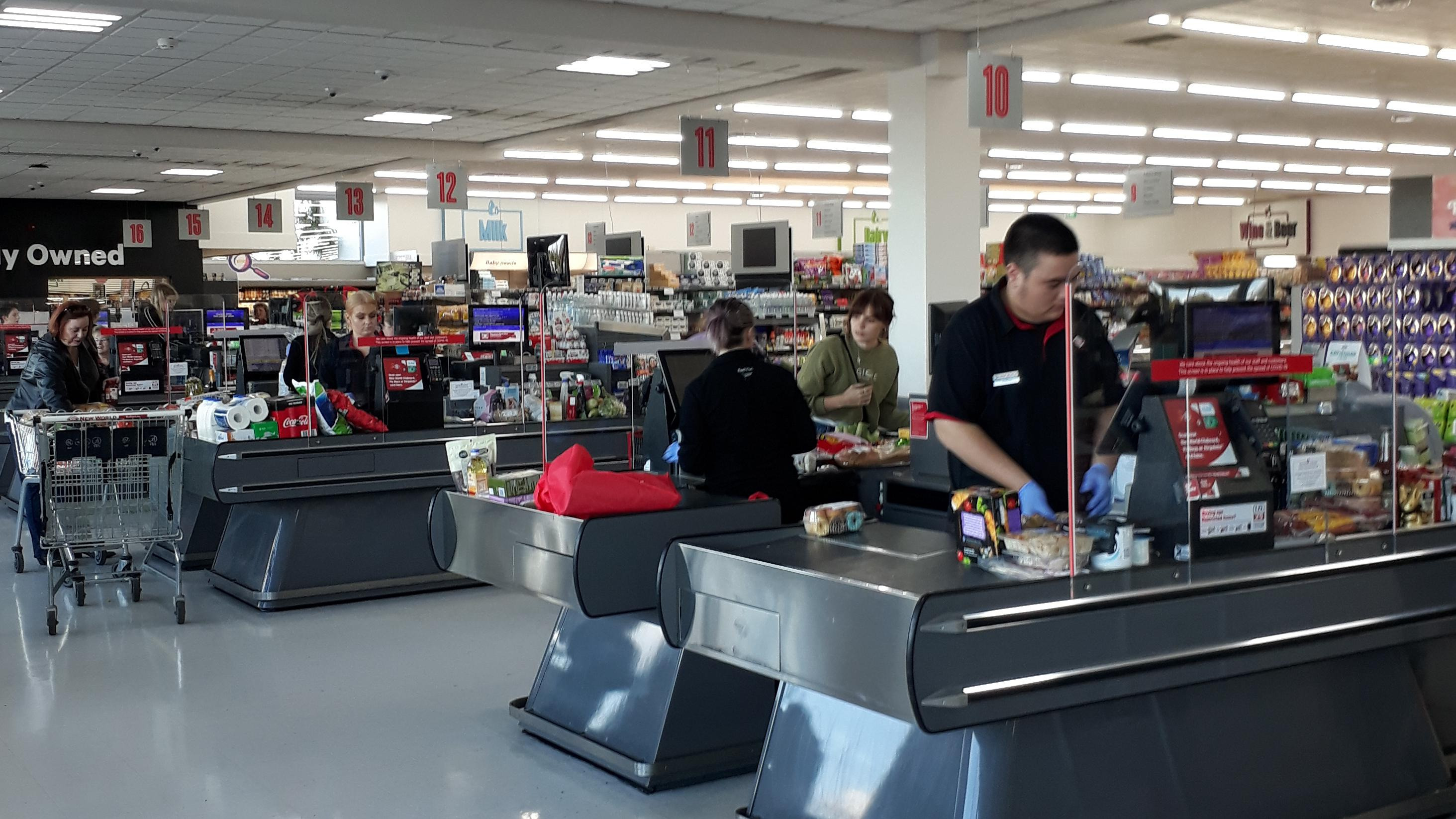 Checkout operators wear gloves and work behind protective shields during the COVID-19 pandemic. Taken in a New World supermarket in Rolleston, New Zealand.